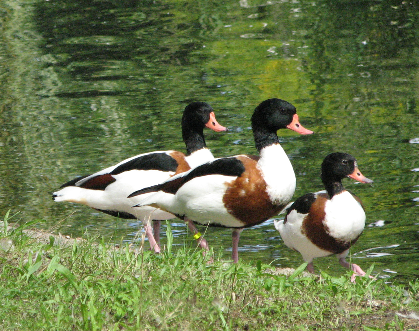 Tree common shelducks (Tadorna tadorna) at Silesian Zoological Garden, Chorzów, Poland.